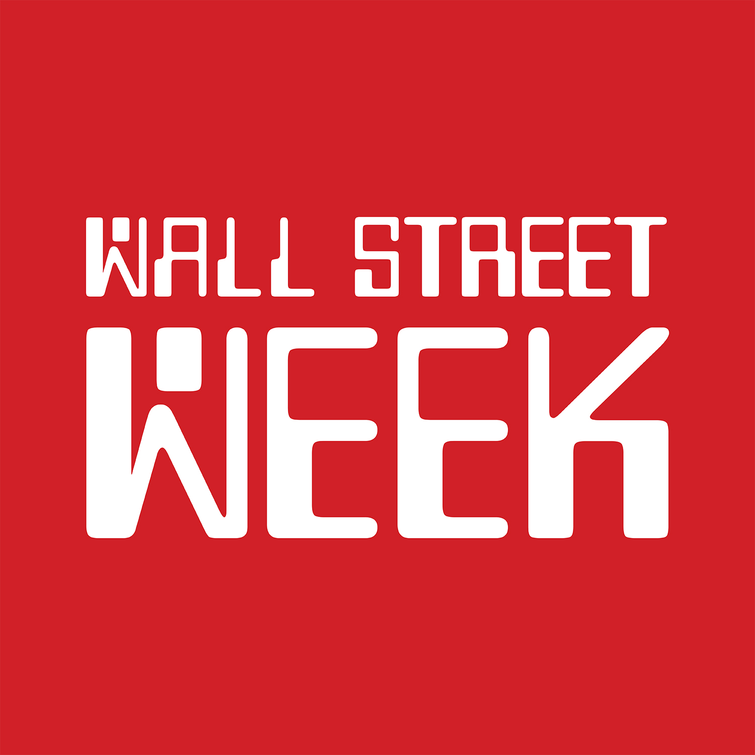 The updated logo created by SkyBridge Media for the purposes of reviving the iconic investment news program. SkyBridge opted to include the same MICR font as the original with new styling and color but did away with the stylized use of a “$” for the “S” in “Wall Street Week” title sequence typeface.